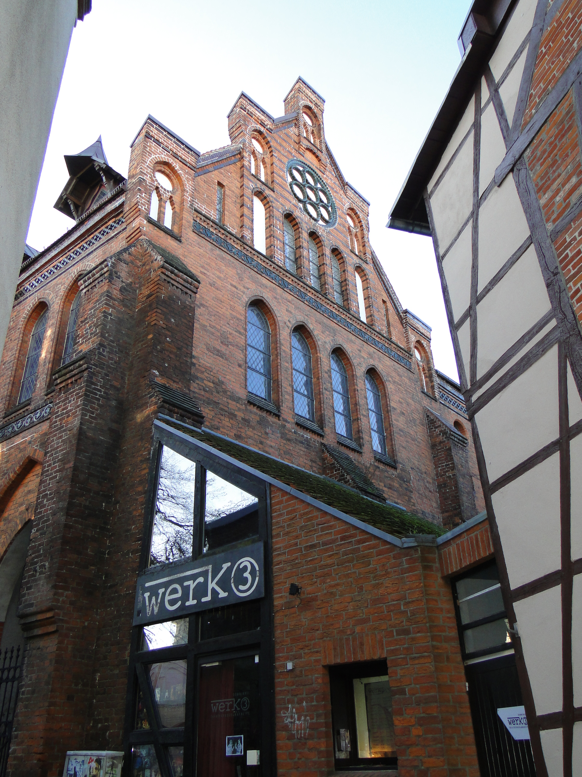 werk 3, stage of the State Theater in the Friedrichsstraße 11 in Schwerin, Mecklenburg-Vorpommern, Germany